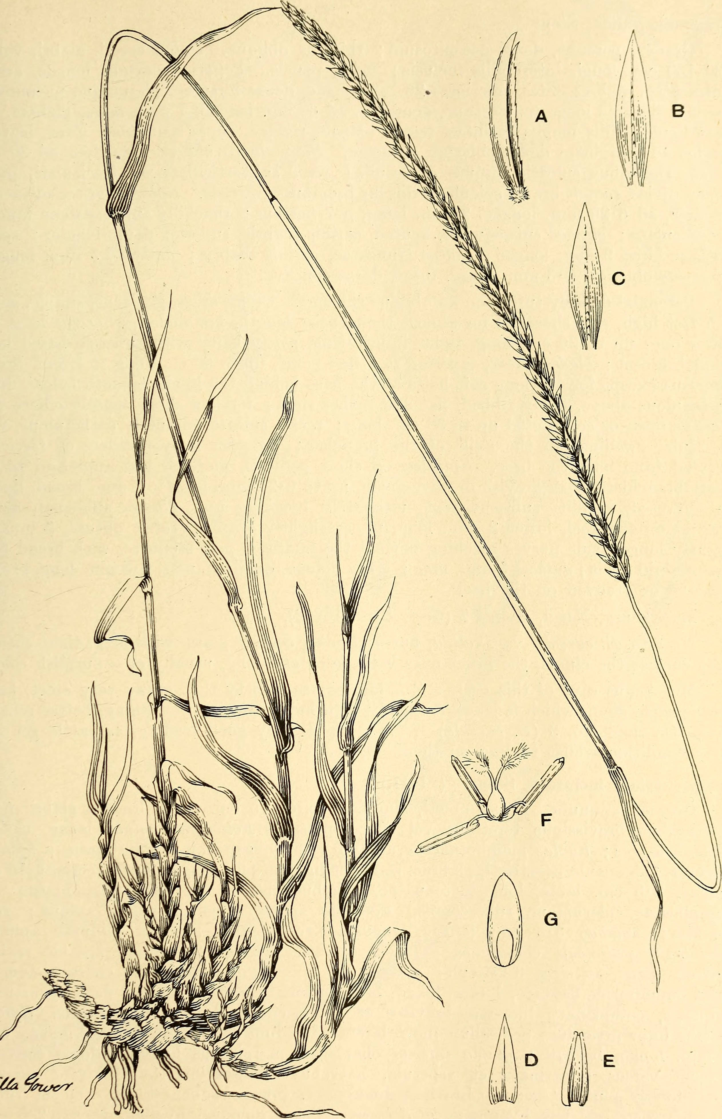 Title: Bothalia Year: 1921 (1920s) Authors: Botanical Research Institute (South Africa); Pretoria (South Africa). National Herbarium; South Africa. Dept. of Agriculture. Division of Botany and Plant Pathology; South Africa. Dept. of Agriculture. Division of Botany; South Africa. Dept. of Agricultural Technical Services. Division of Botany; Botanical Survey of South Africa Subjects: Botany Publisher: Pretoria : Botanical Research Institute, Dept. of Agricultural Technical Services Text Appearing Before Image: Mai,- r. J/M* Text Appearing After Image: Mosdenia Waterbergensis, Stent. A. -Spikelet. \\.—Lower glume. C.— Upper glume. D.—Valve. E V.—Pistil and stamens, G.—Grain.